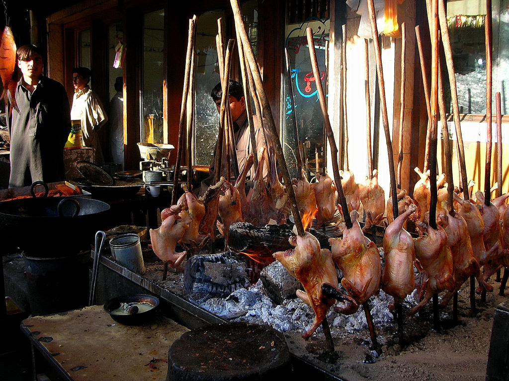 Barbecued chickens in Quetta, Pakistan